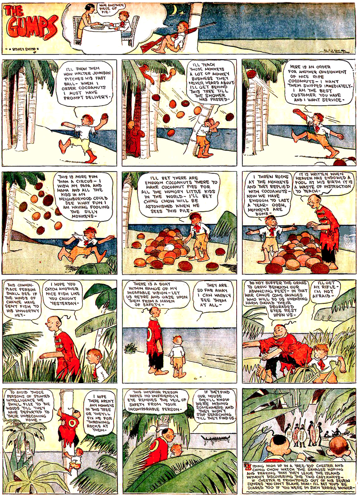 Copy of The Gumps comic strip from the Chicago Sunday Tribune in 1925. A search was done for copyright renewal in both artwork and publications for Chicago Tribune, Gumps and Sidney Smith for the years 1952 and 1953. There were no listings for any of these keywords; there's no evidence that copyright continues to be claimed on this.